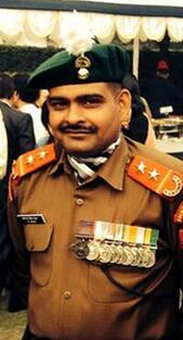 Yogendra Singh Yadav, Param Vir Chakra Recipient